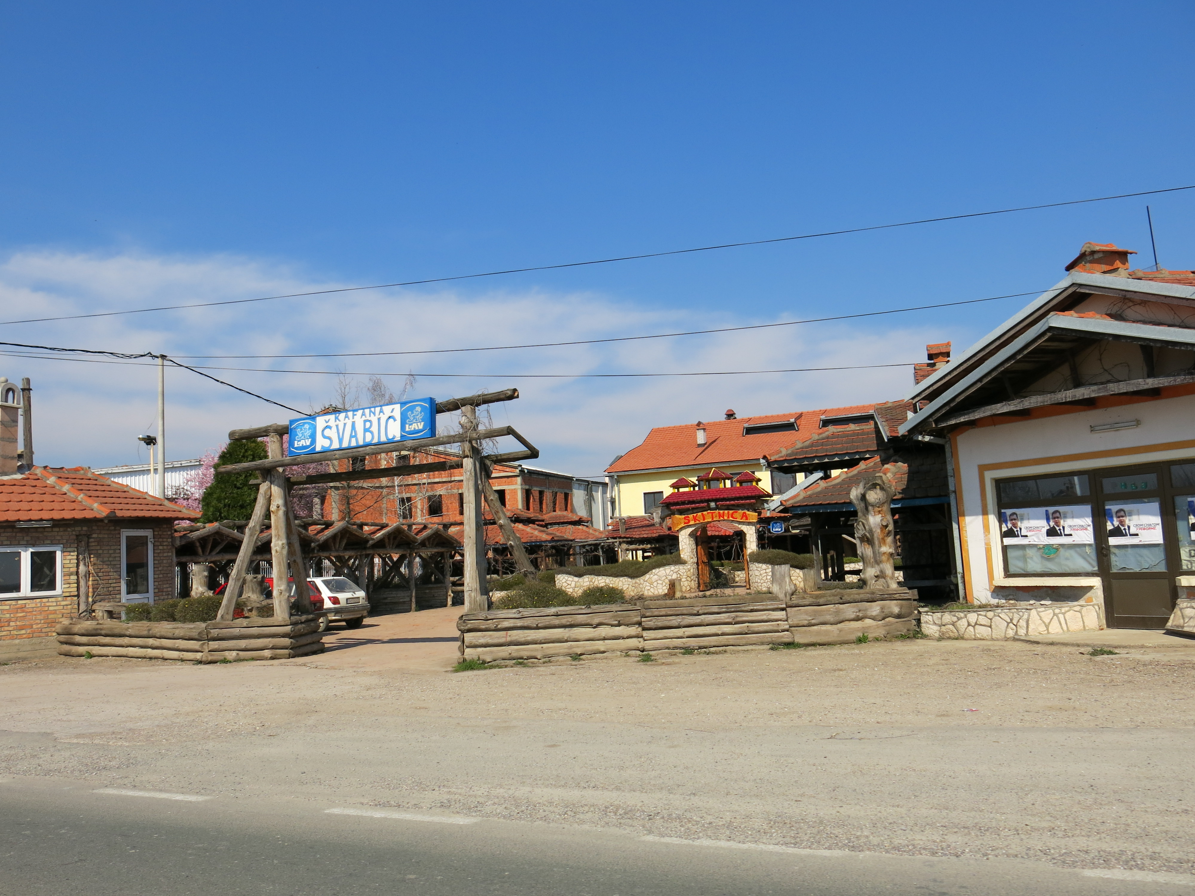 Zvezd, Street